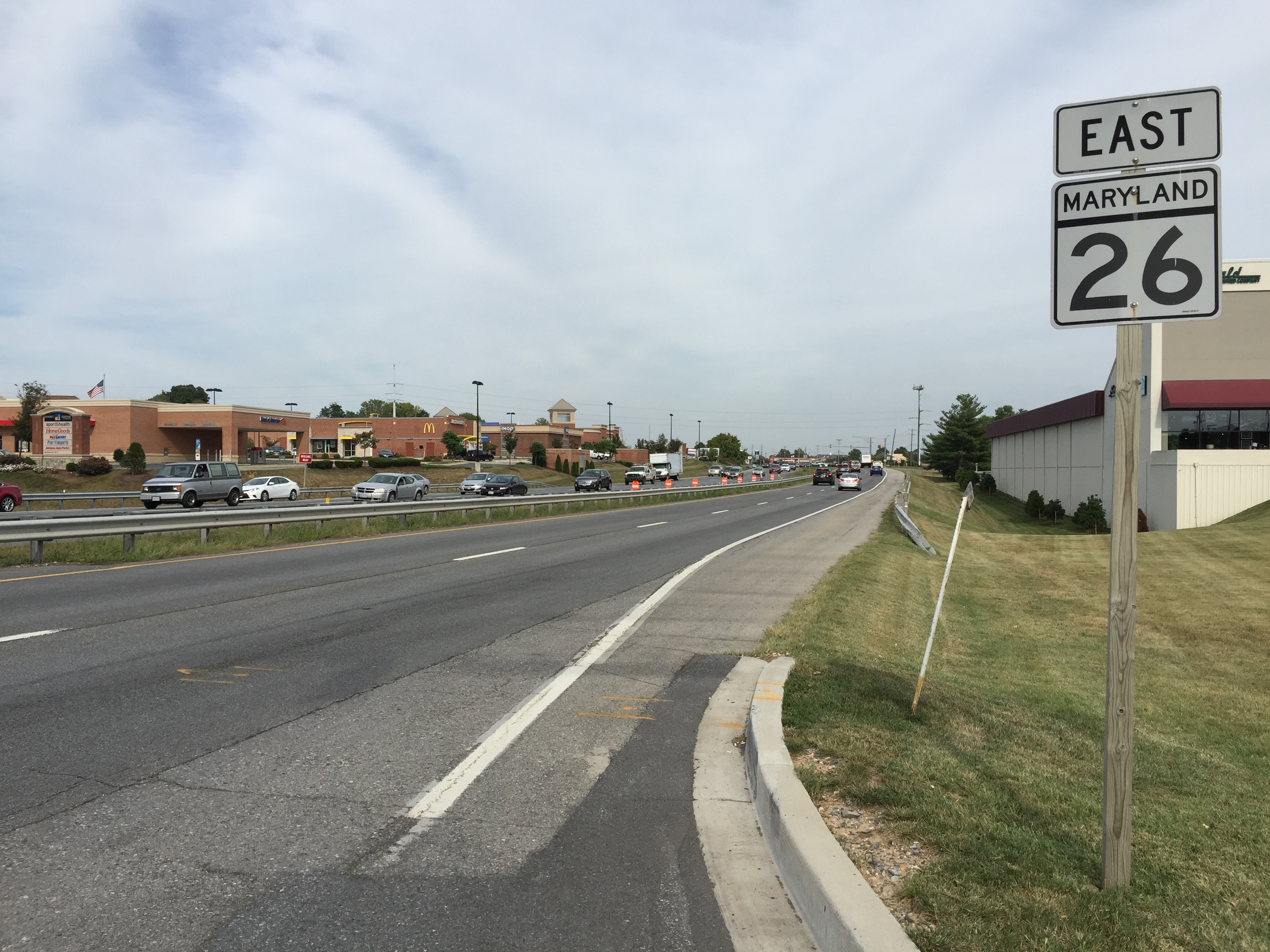 View east along Maryland State Route 26 (Liberty Road) at Routzahn Way in Frederick, Frederick County, Maryland